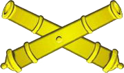 Rocket and Artillery troops branch insignia of Ukraine.